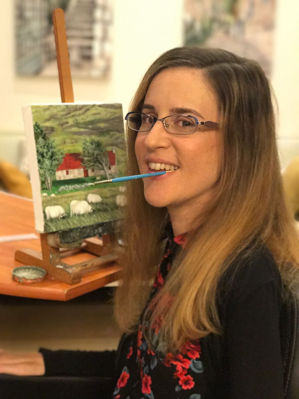 Netta Ganor with paintbrush in her mouth